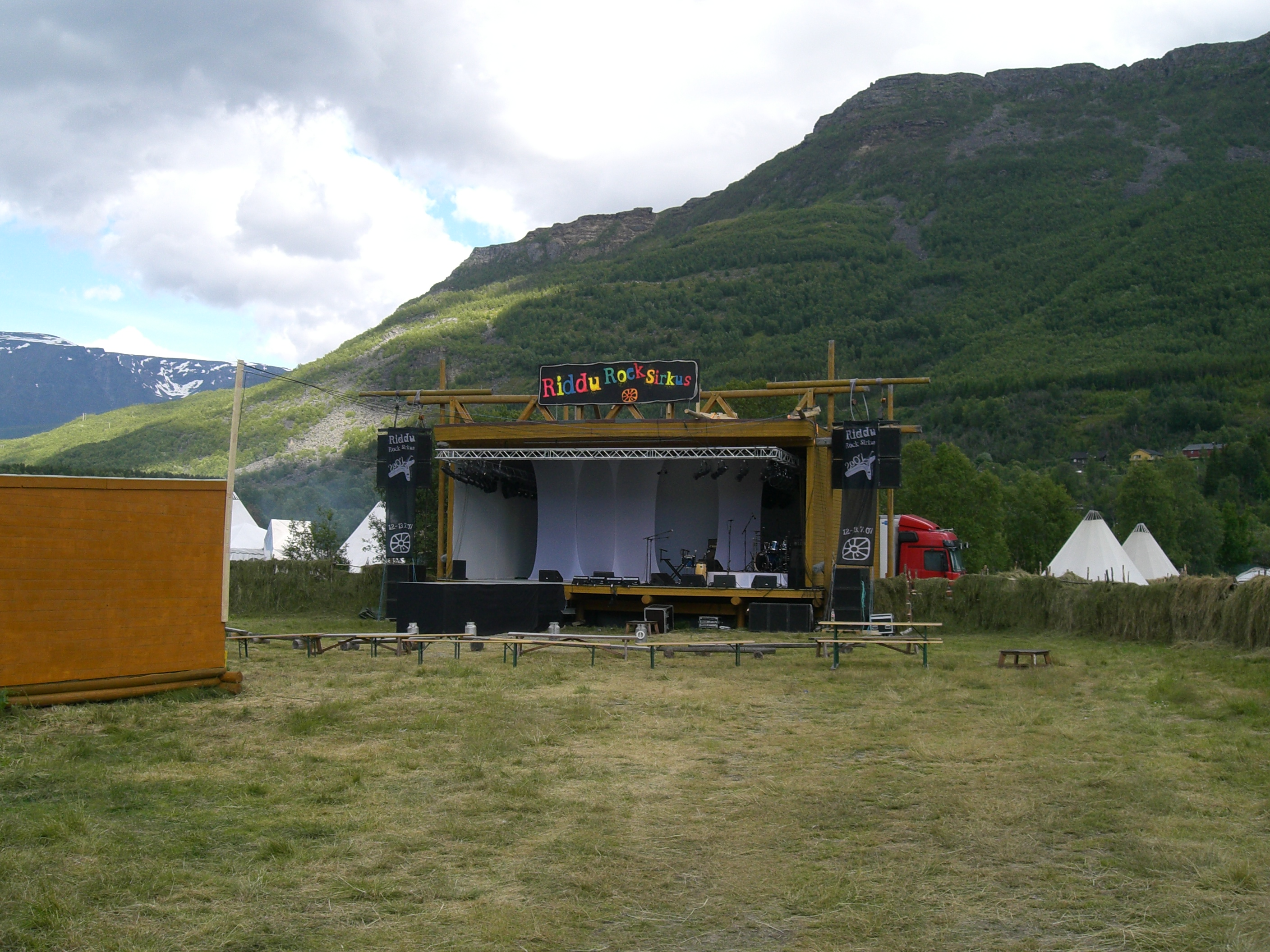 Festival of Riddu Riđđu of natural cultures in Norway, 2007